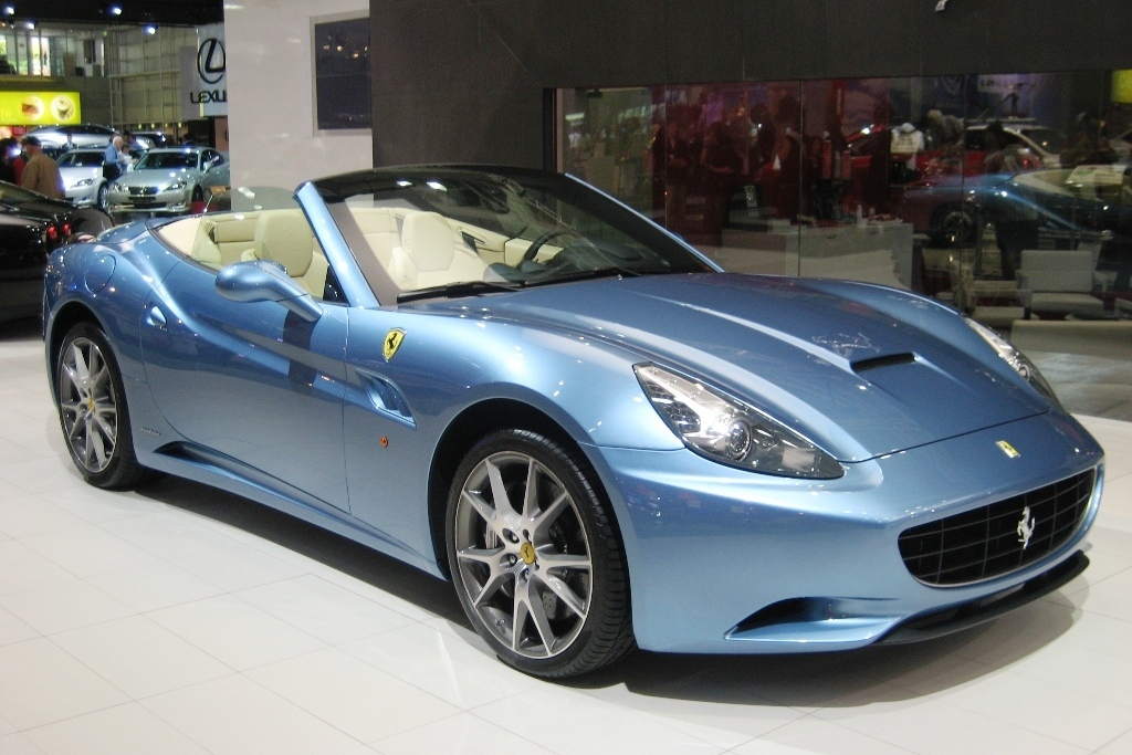 Ferrari California at the 2008 Australian International Motor Show.